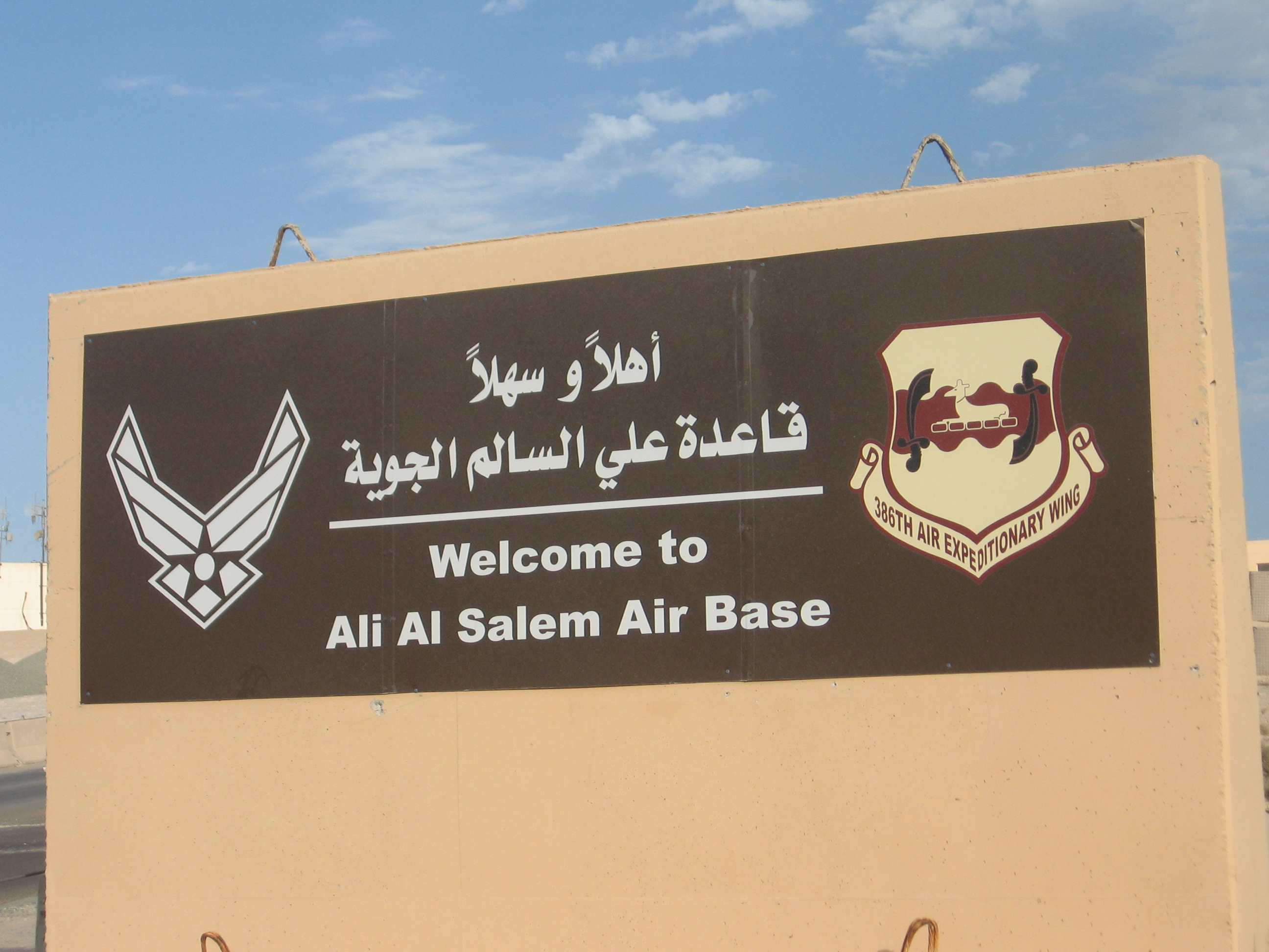 The welcome sign at the entrance to the Air Force side of Ali Al Salem Air Base.